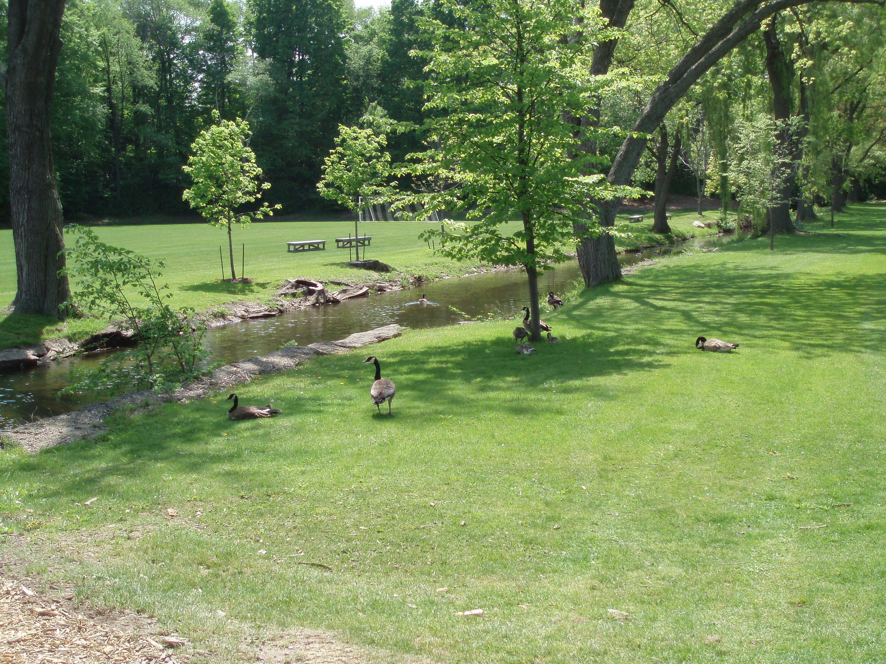 Appleby College